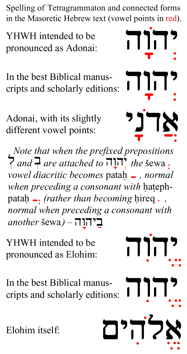 The spelling of the Tetragrammaton and connected forms in the Hebrew Masoretic text of the Bible; vowel points are shown in red. For further information, see article Q're perpetuum (now merged as part of "Qere and Ketiv") and diagram Image:Qre-perpetuum.png . A resizable (zoomable) vector PDF version of this diagram is available on request.